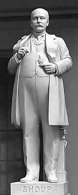 George Laird Shoup given by Idaho to the National Statuary Hall Collection.